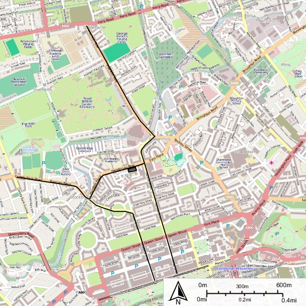 Edinburgh Northern Tramways Legend: *━━━ Primary lines *━━━ Secondary lines *━━━ Tertiary lines